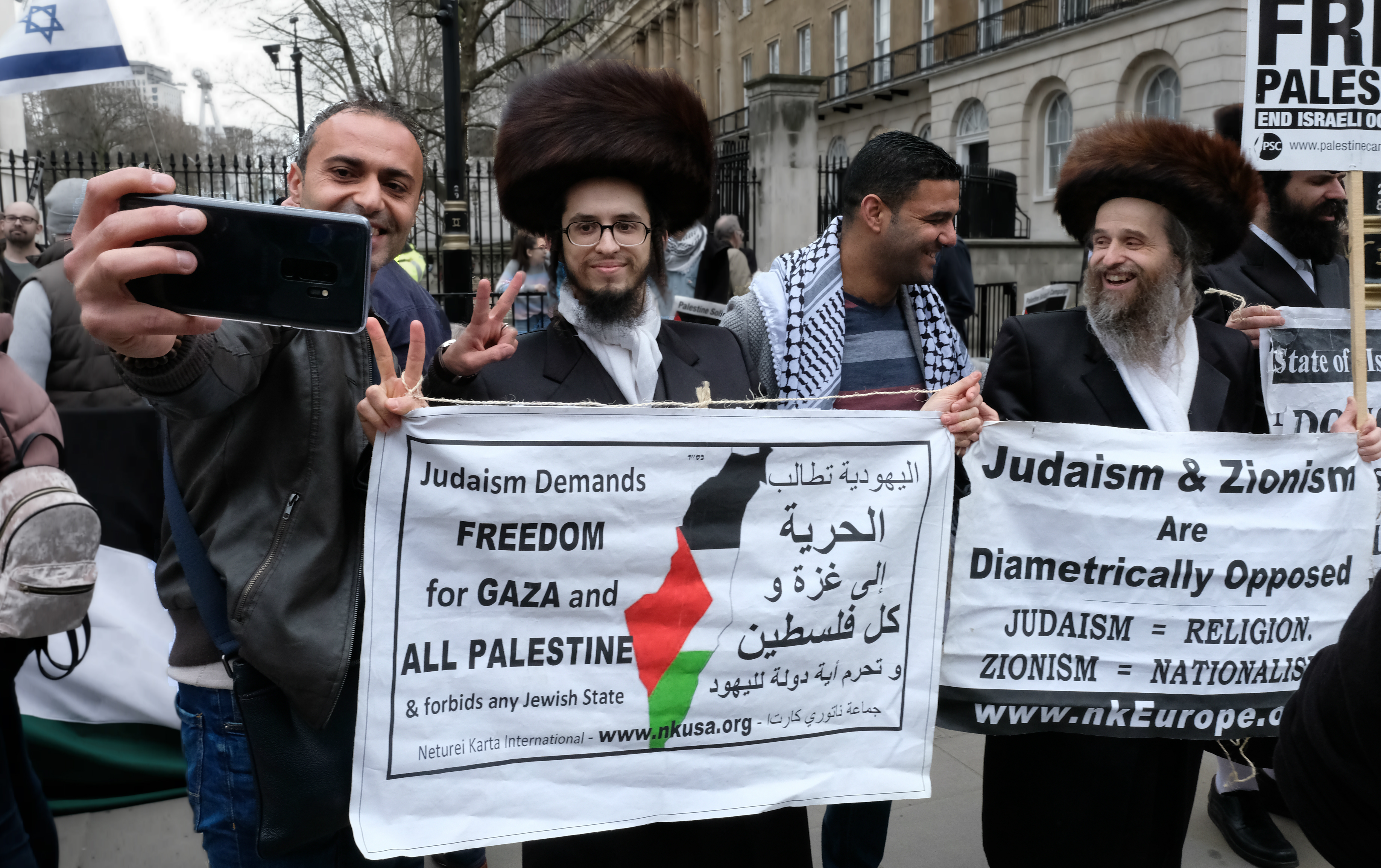 Naturei Karta attending in support of a protest over Palestinian unarmed protestor deaths, London (UK)